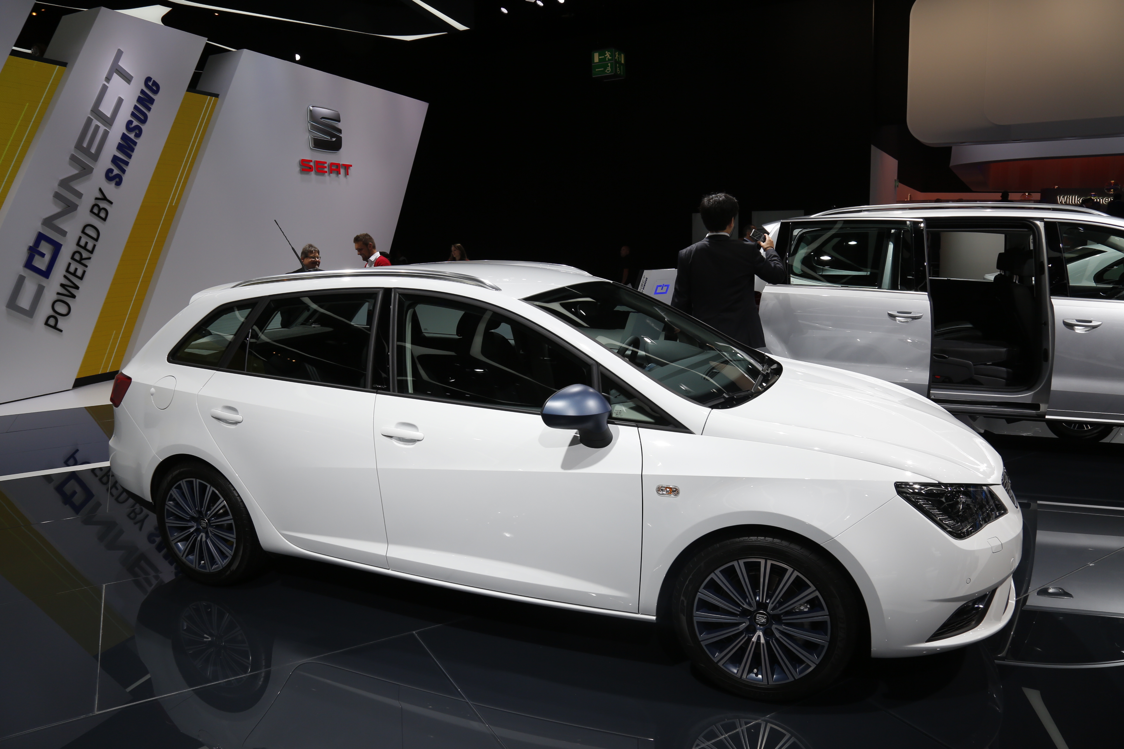 A white SEAT Ibiza CONNECT edition at the Frankfurt Motor Show.